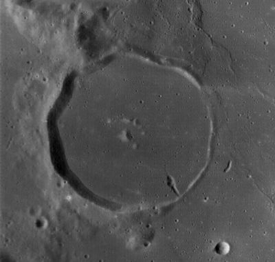 LROC image WAC No. M119510188ME. Calibrated by LROC_WAC_Previewer.